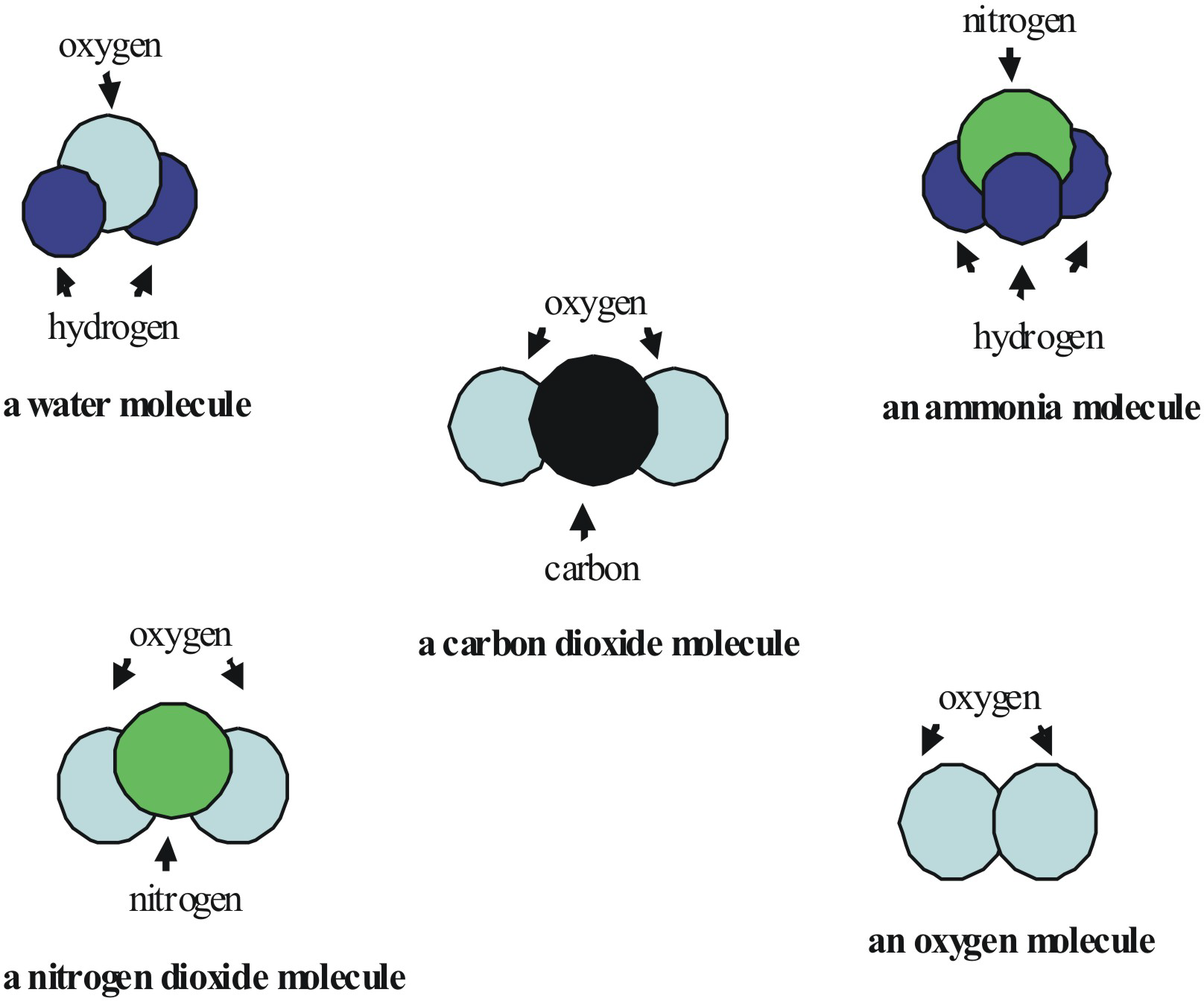 Some common molecules and the atoms that they are made from.